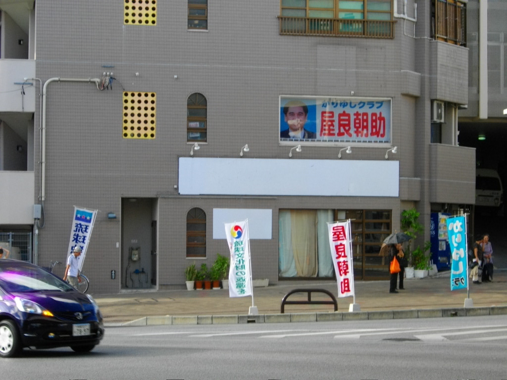 Kariyushi Club Headquaters (Formerly called "Ryukyu Independent Party", It is the local political party in Okinawa prefecture.)